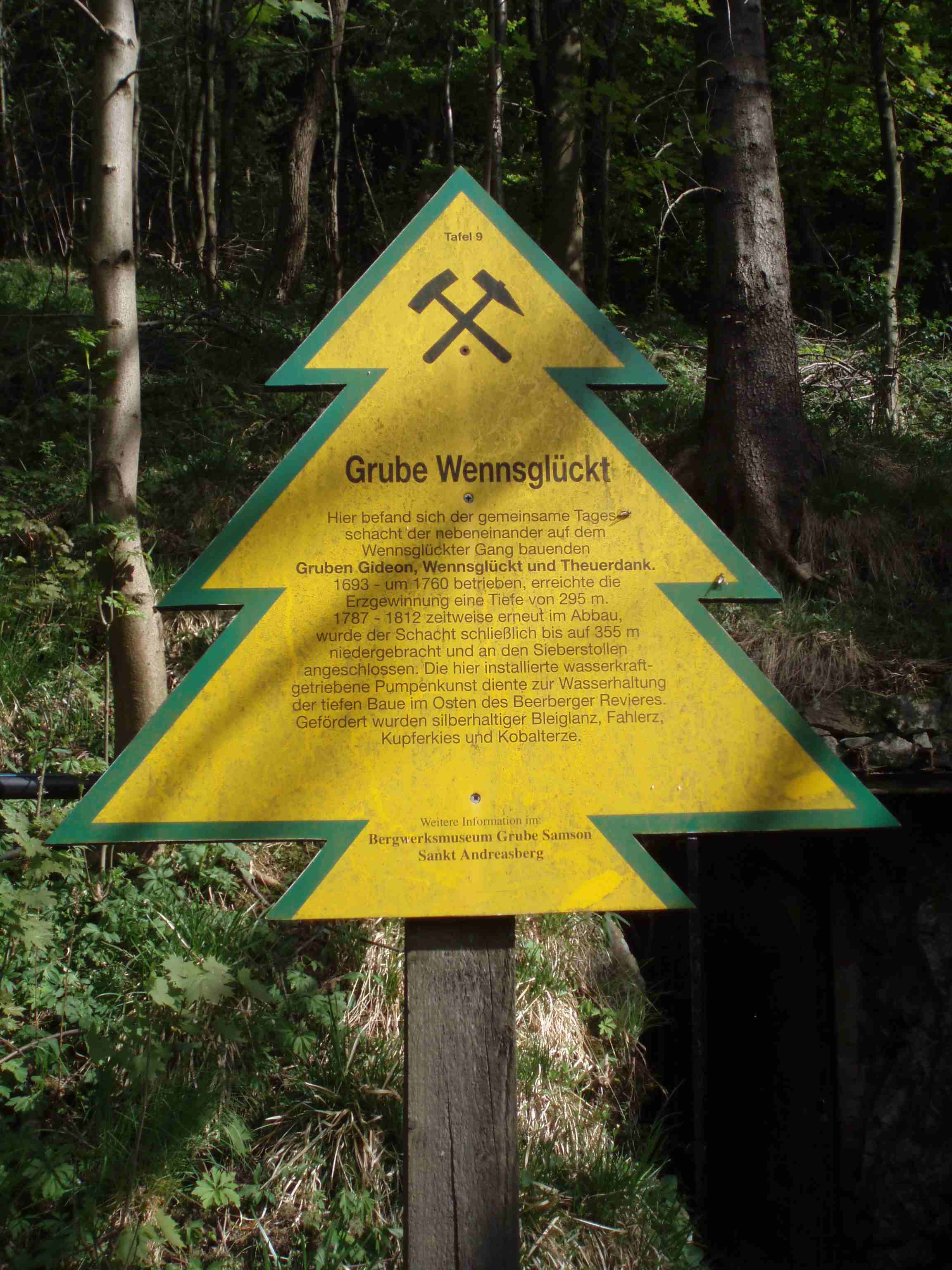 Dennert Fir Tree № 9, Wennsglückt (lit: if lucky) pit, Sankt Andreasberg, Lower Saxony, Germany.